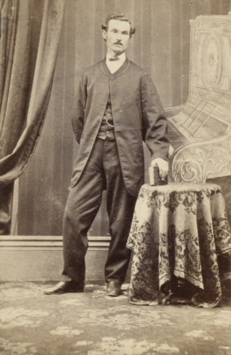 John King the sole survivor of Burke and Wills expedition, c 1861, from albumen print DL PXX 3 3